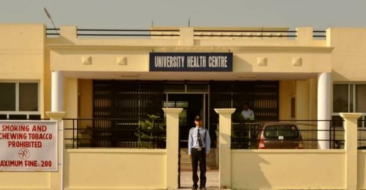 THIS IS A HEALTH CENTER.